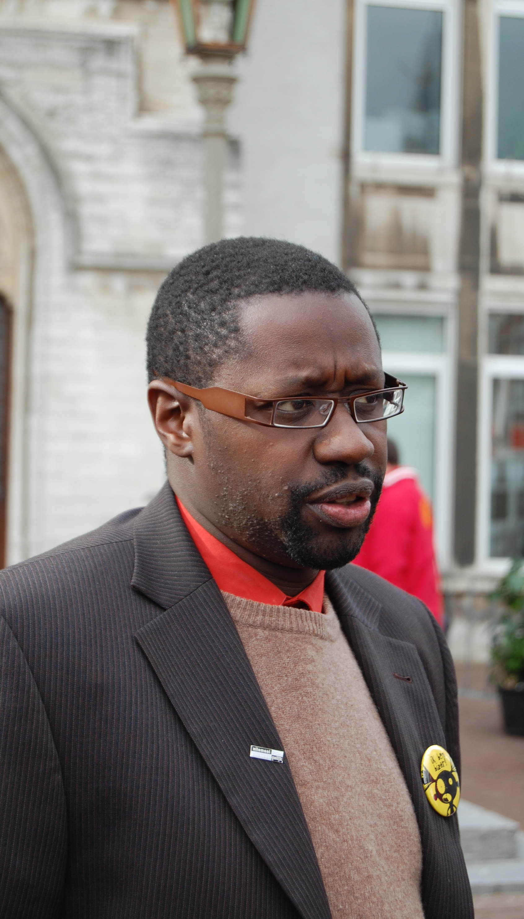 Picture of the multicultural mass wedding event in Sint-Niklaas.